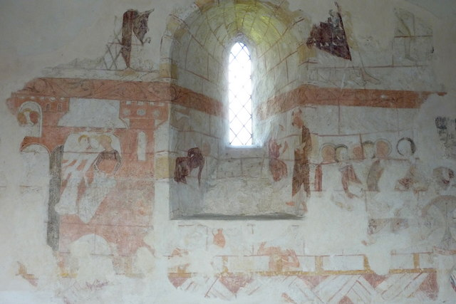 Medieval wall paintings and Norman window in the church of St. Thomas Becket, near Capel, Kent, England. Professor Ernest Tristram uncovered these paintings in 1927. In this section, Cain slaying Abel and God convicting Cain are shown in the window splays. To the left of the window is The Betrayal, to the right is The Last Supper. All the paintings are thought to date from 1200 and 1250.